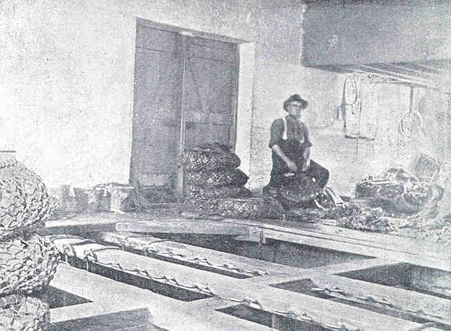 Whitstable, England. Storage pits of the Whitstable Company; Sorting the Oysters . Subject: Oyster culture Geographic Subject: England--Whitstable Tag: Aquaculture